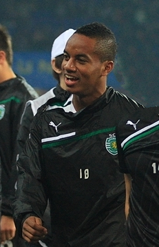 André Carrillo